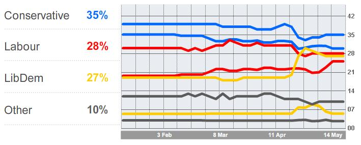 UK General Election 2010 Opinion Poll Tracker